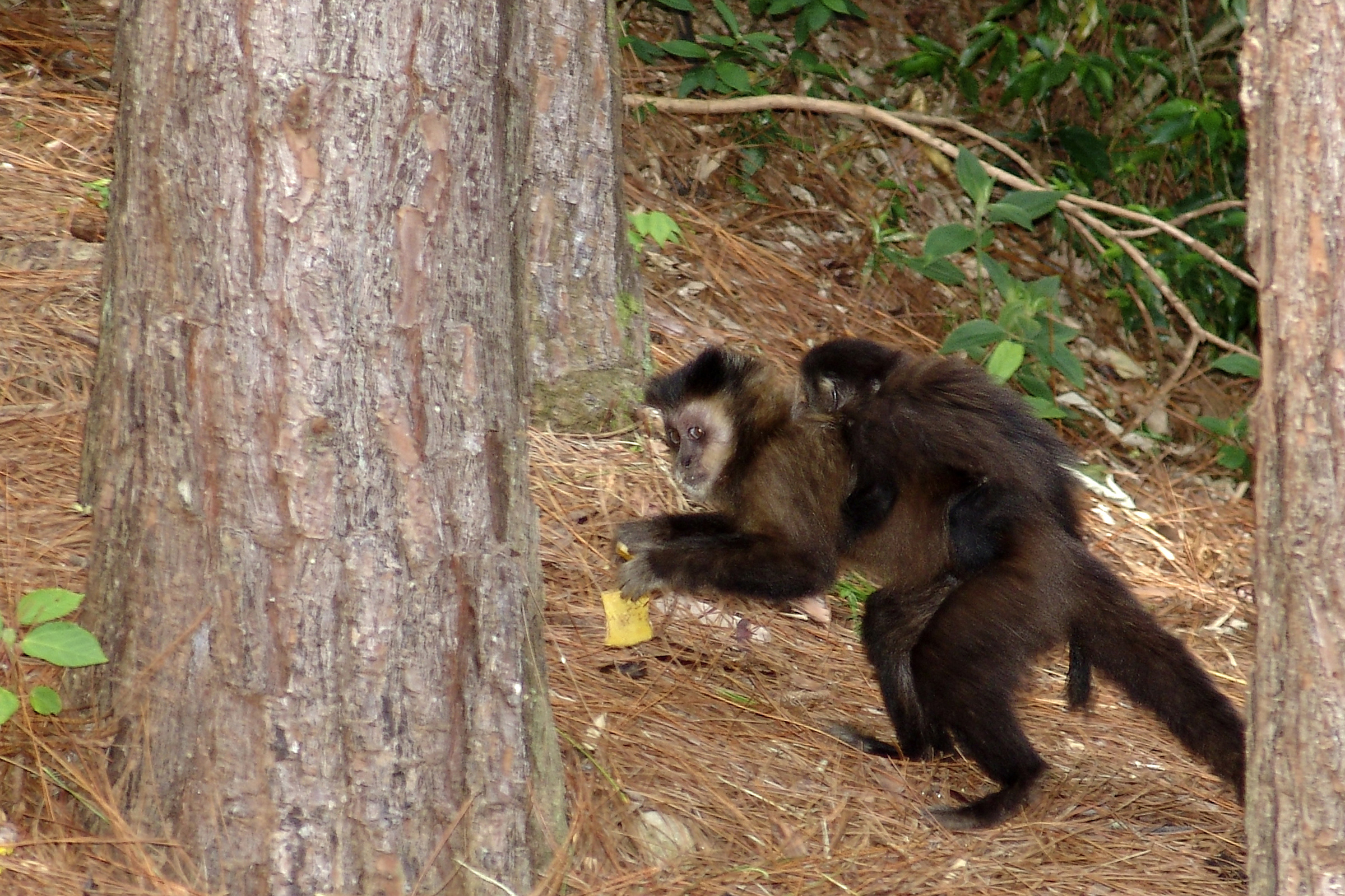 Tufted Capuchin - (Photo shot in the nature, it is not Captivity!!)